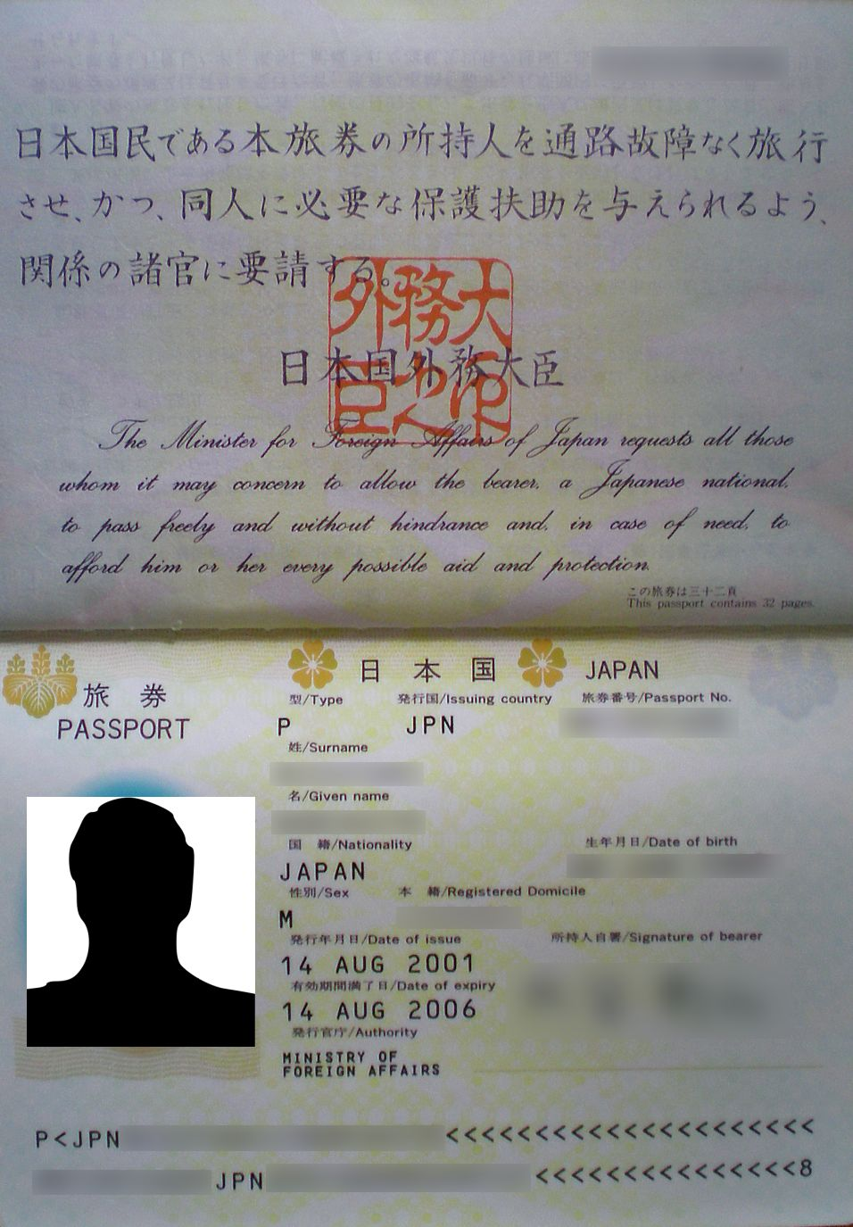 Japanese Passport Identity Information Page (before Biometric passport)